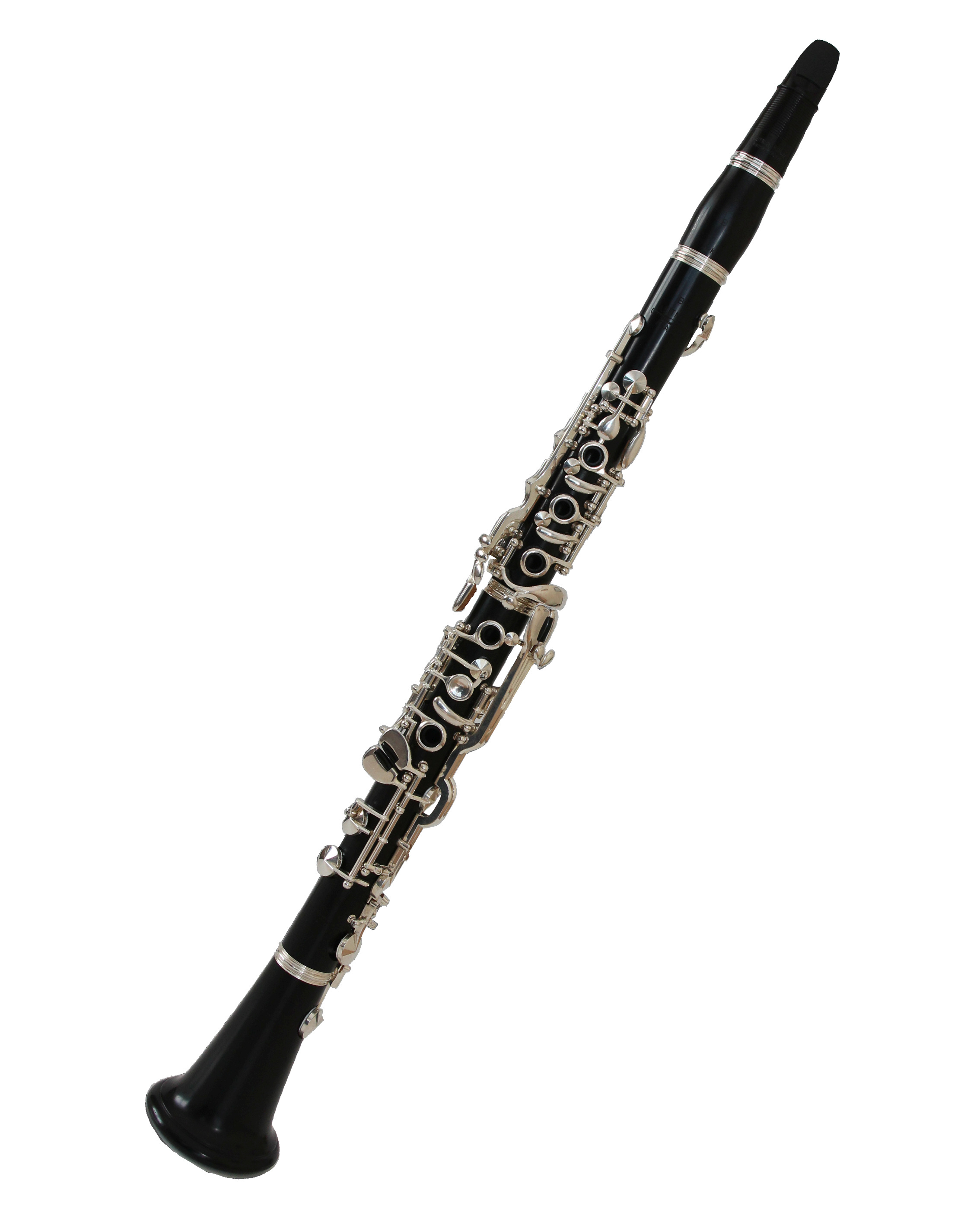 Clarinet in Bb, Oehler system, inclined 30 degrees